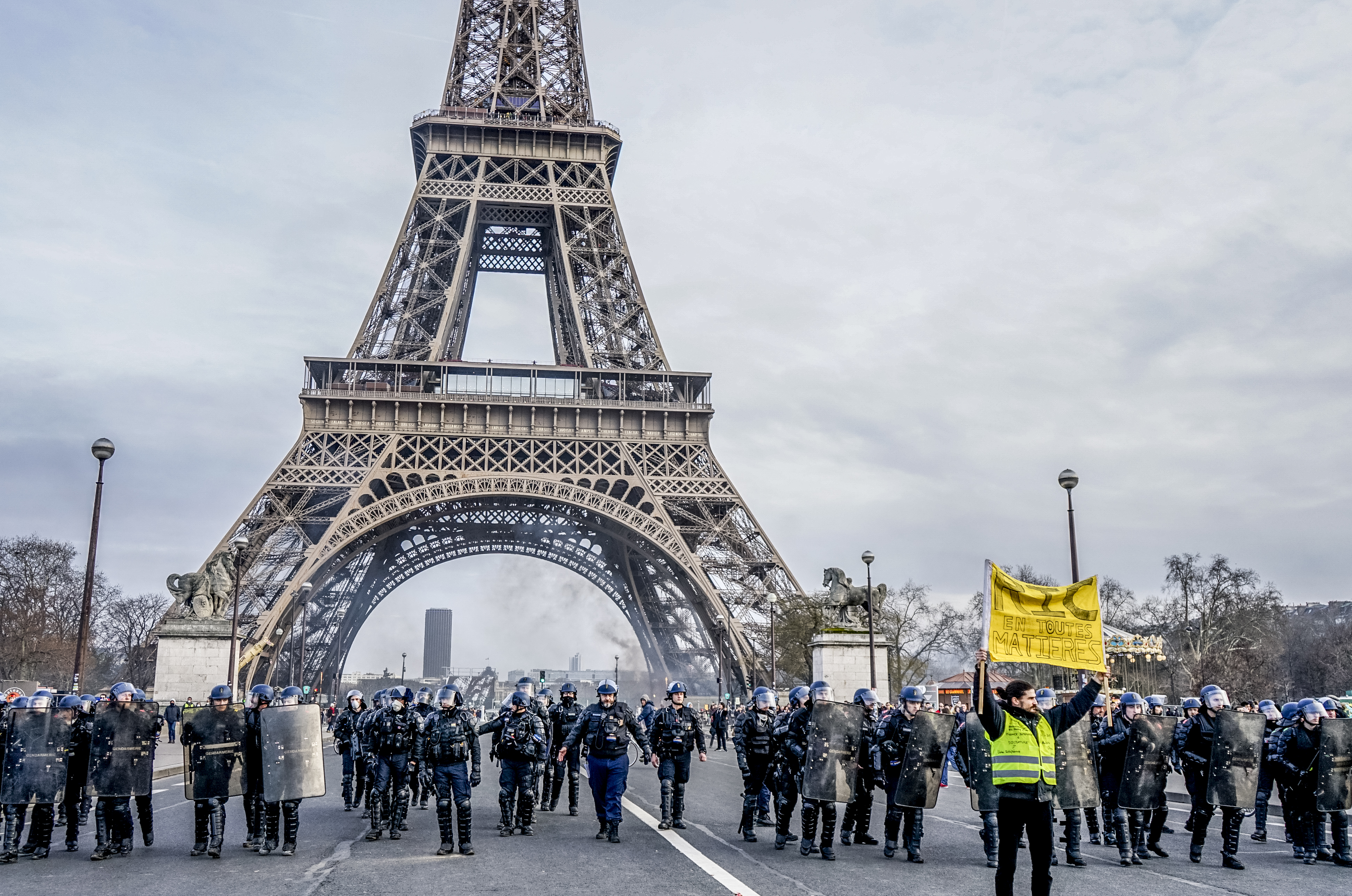 Thousands of yellow vests (Gilets Jaunes) protests in Paris calling for lower fuel taxes, reintroduction of the solidarity tax on wealth, a minimum wage increase, and Emmanuel Macron's resignation as President of France, 09 February 2019.